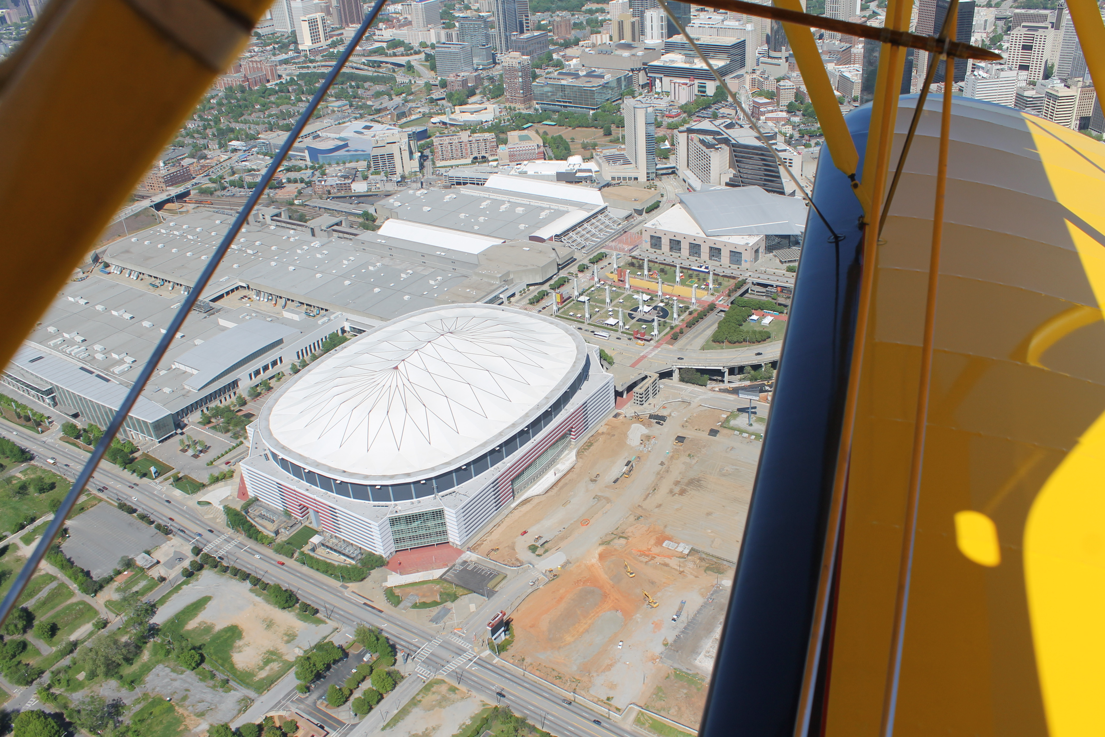 Overhead shot of Georgia Dome, New Falcons stadium construction site taken on April 25, 2014